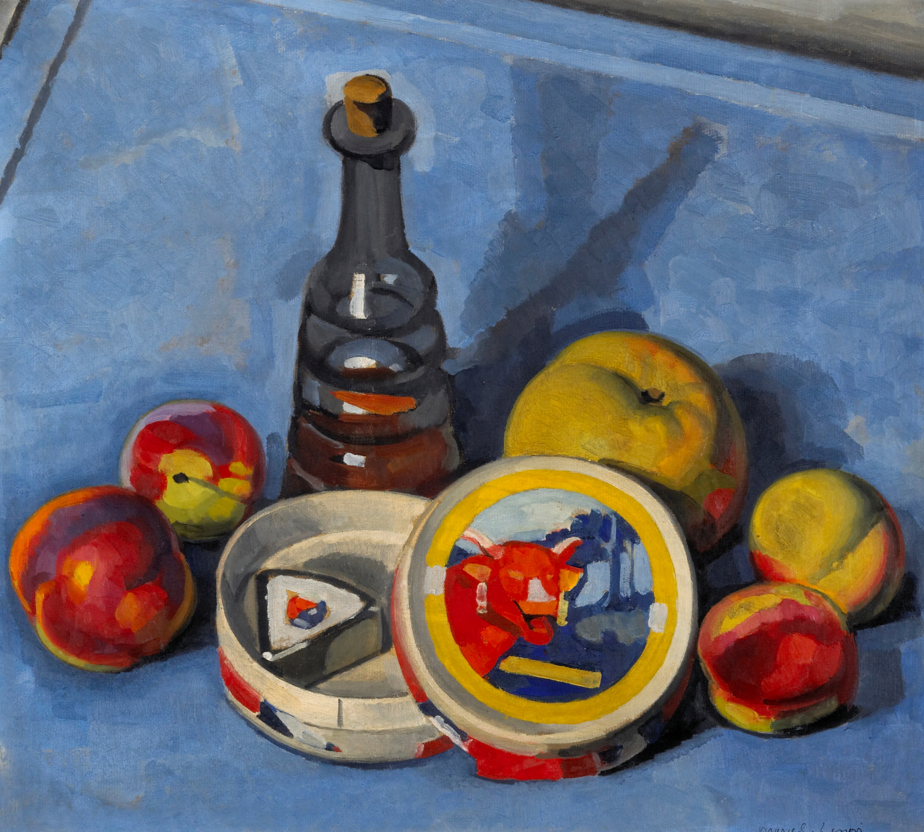 Painting by Marcel-Lenoir done between 1924 and 1931.